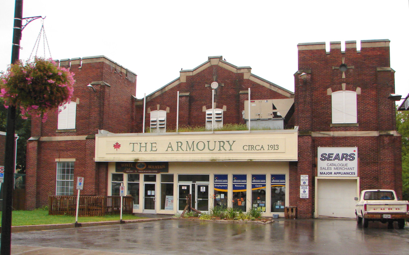 Picton (Prince Edward County), Ontario, Canada